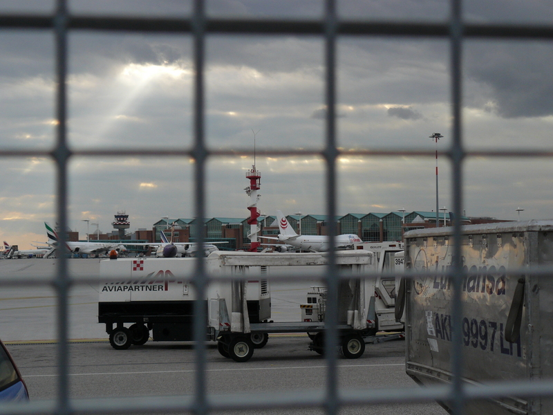 terminal